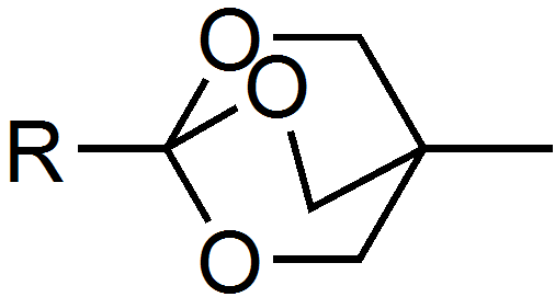 symbolic formation of an obo-orthoester, a base stable protecting group in organic chemistry